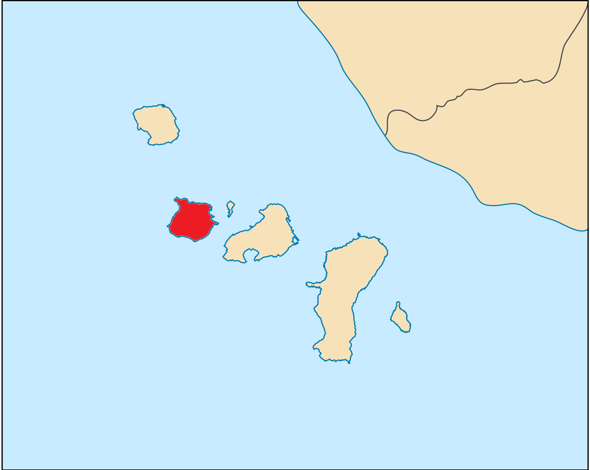 Location of Burgaz Adası, İstanbul